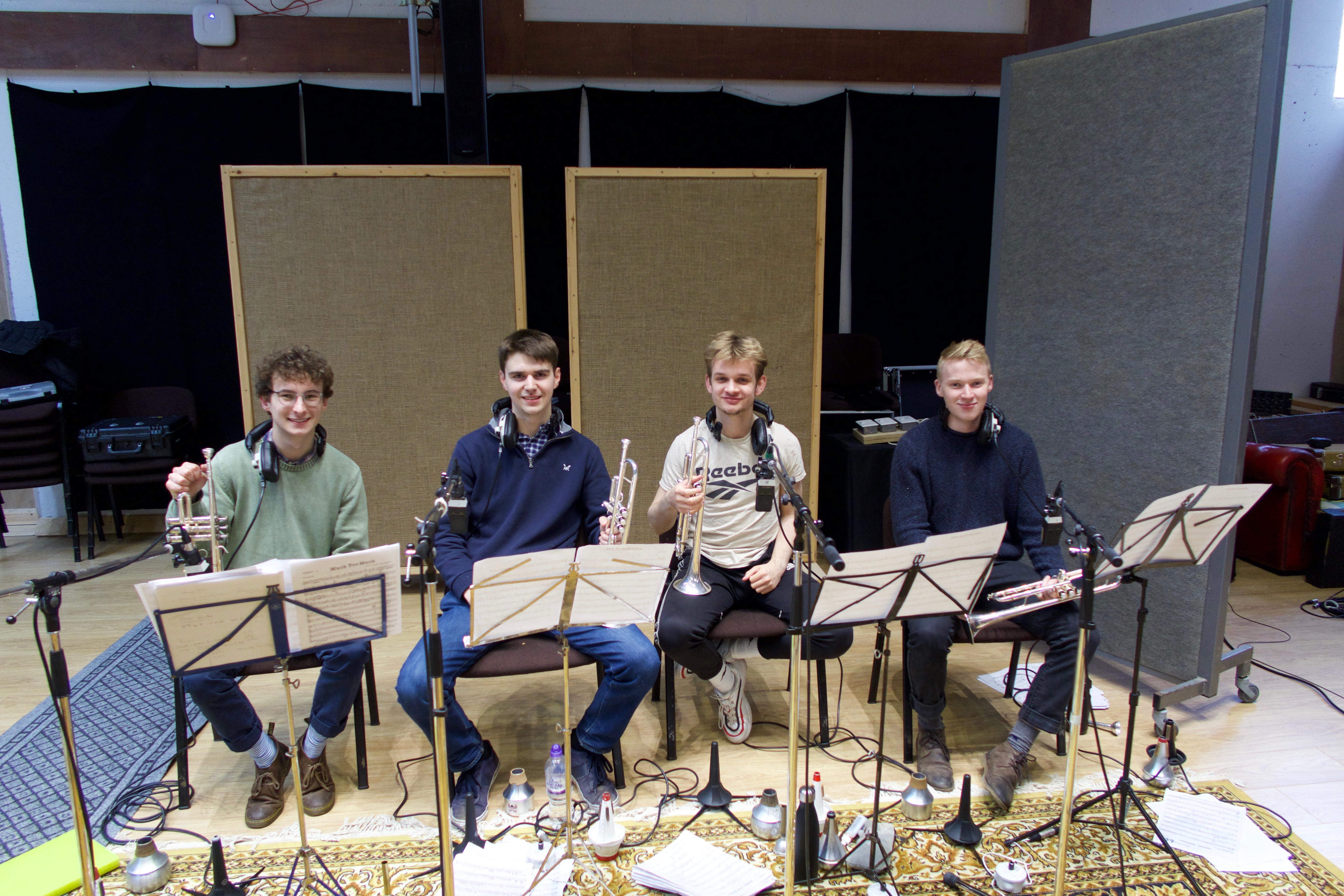 OUJO trumpet section recording at Challow Park Studios 2019, they are smiling.